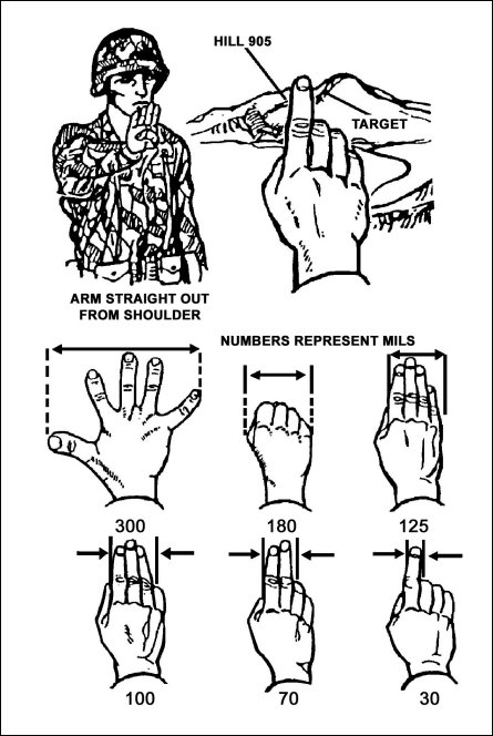 Estimating mils using hand and fingers